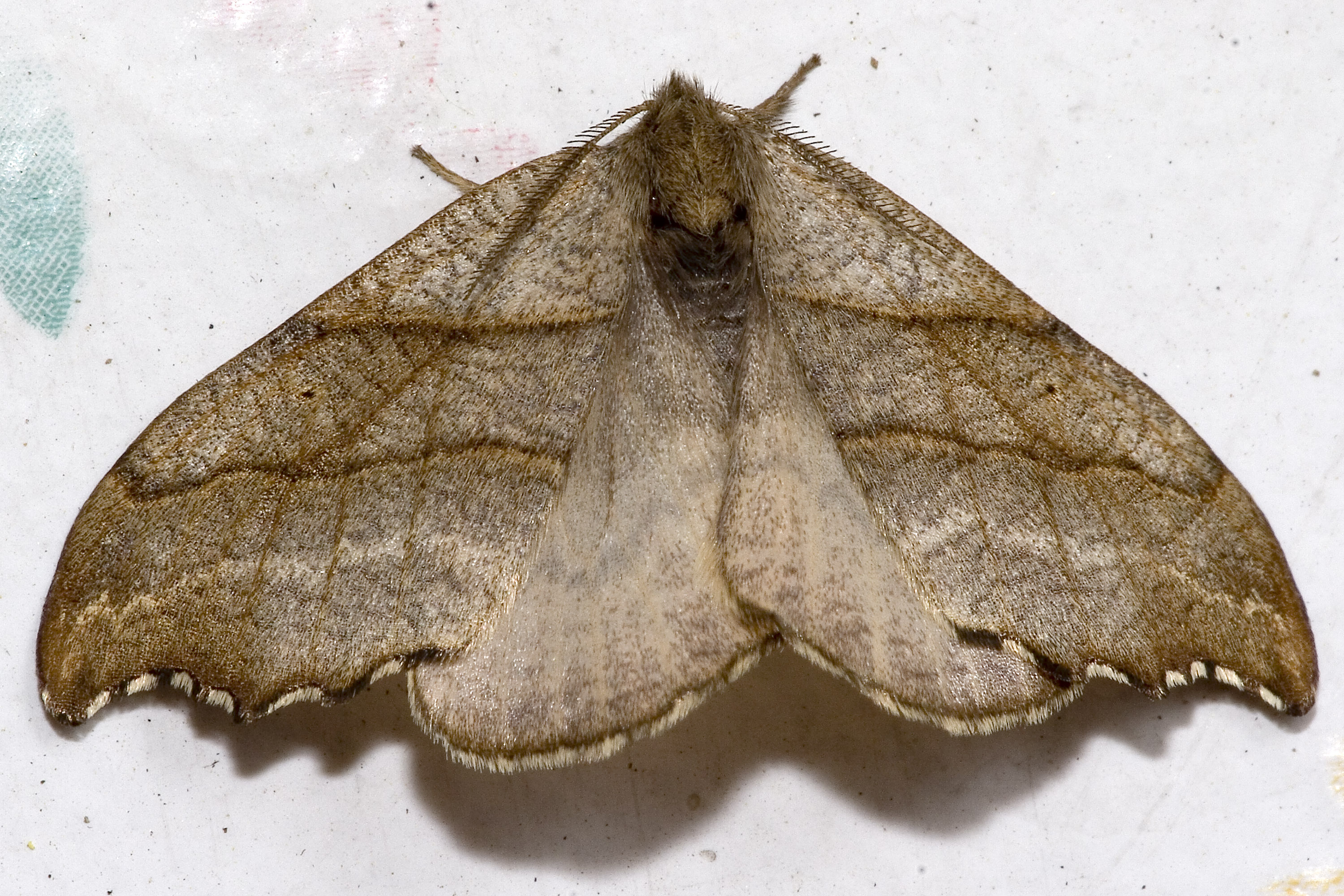 Scalloped Hook-tip, Falcaria lacertinaria